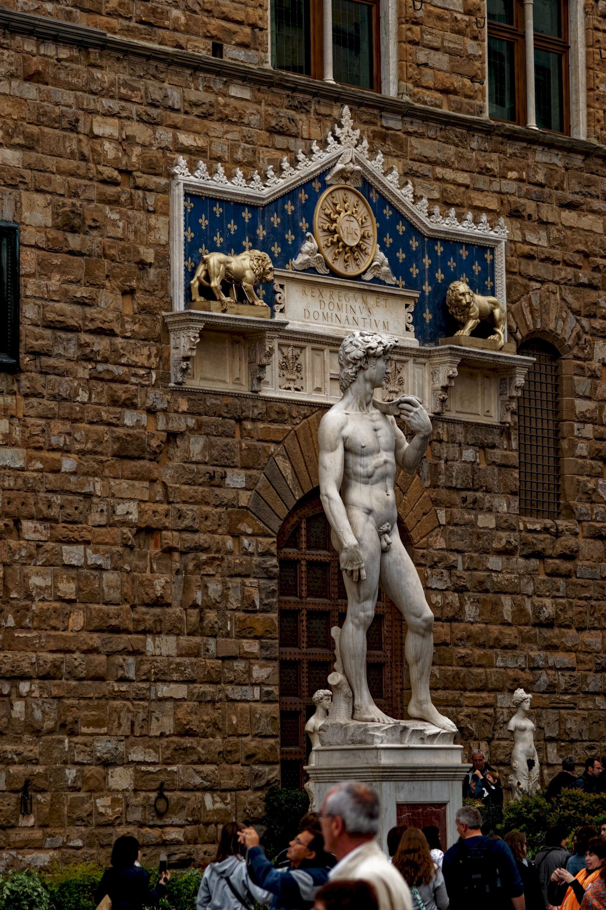 Firenze / Florence - Piazza della Signoria - View SSE on 'David' 1504 (Copy 1873) by Michelangelo Buonarotti